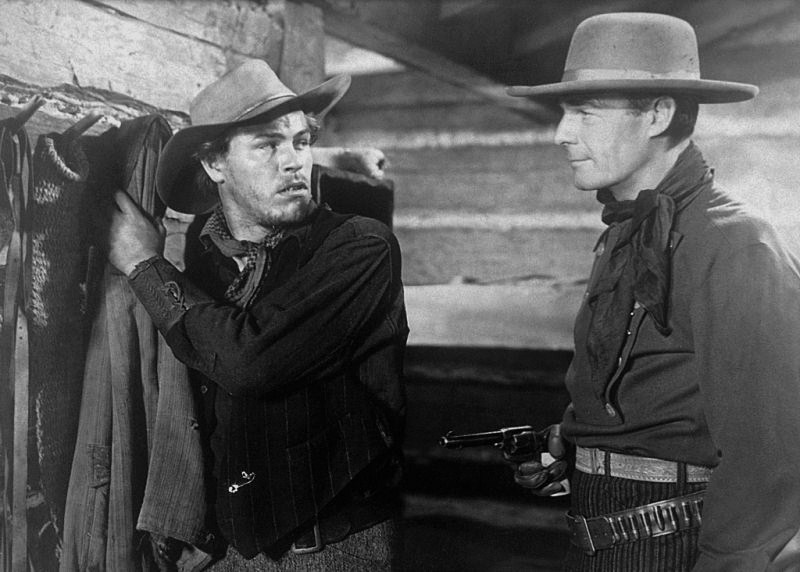 Jack Lambert (left) & Randolph Scott in Abilene Town (1946)